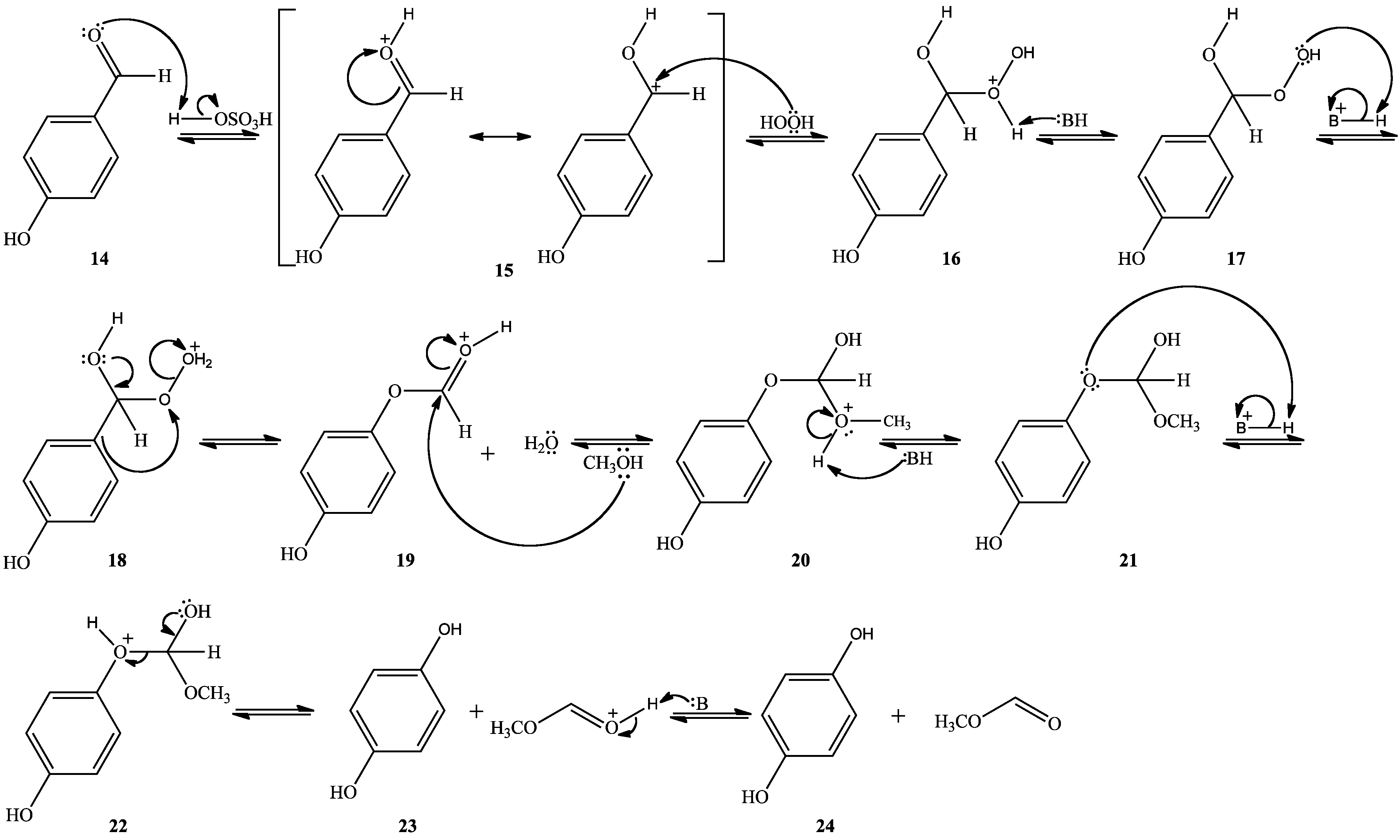 Created by Alexander Linsalata, 27 April 2010. Image shows the step-wise mechanism for acid-catalyzed Dakin oxidation.